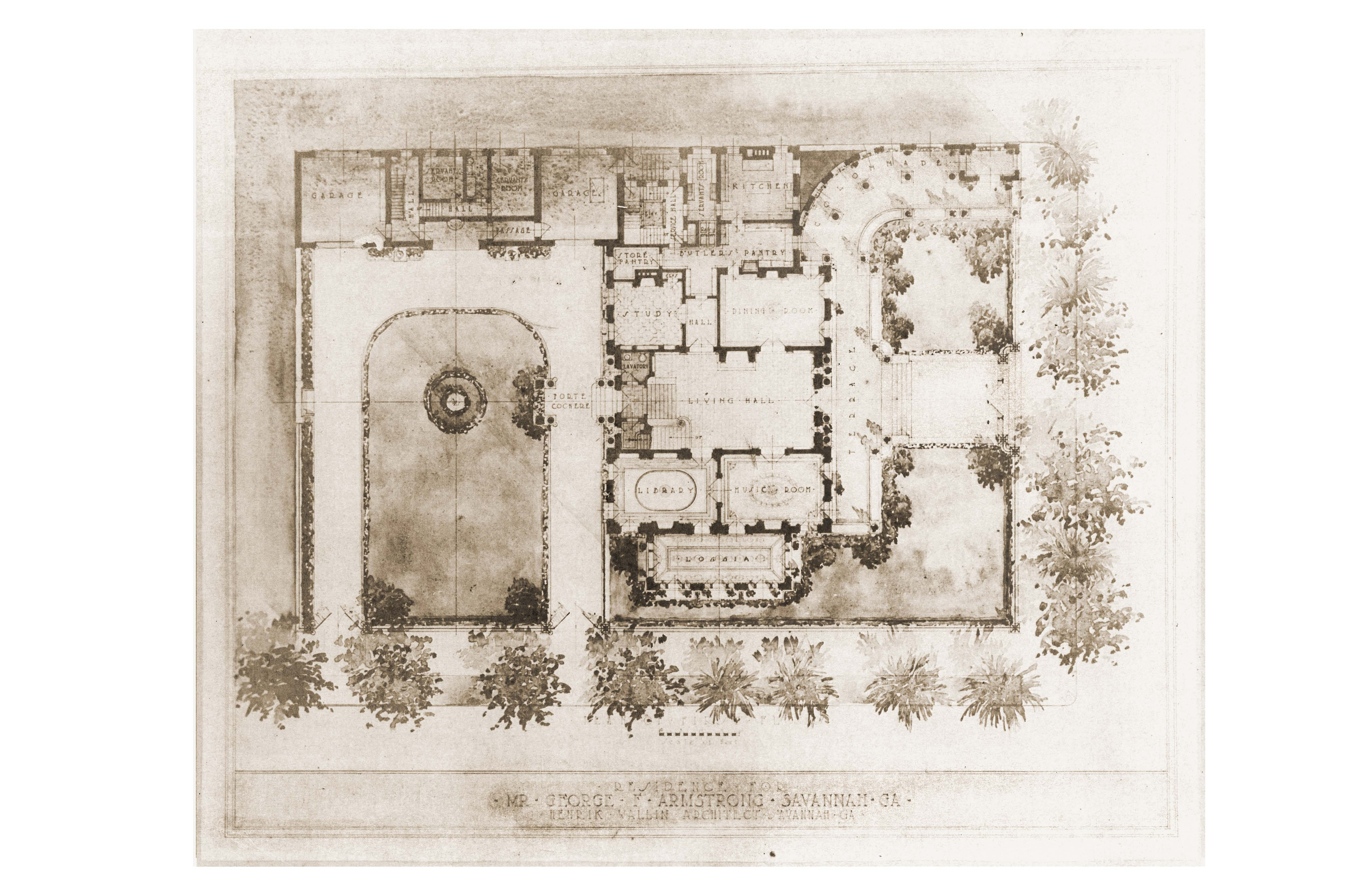 “House of George F. Armstrong, Savannah, Georgia.” The American Architect. Vol. CXVI, No. 2276, August 6, 1919.